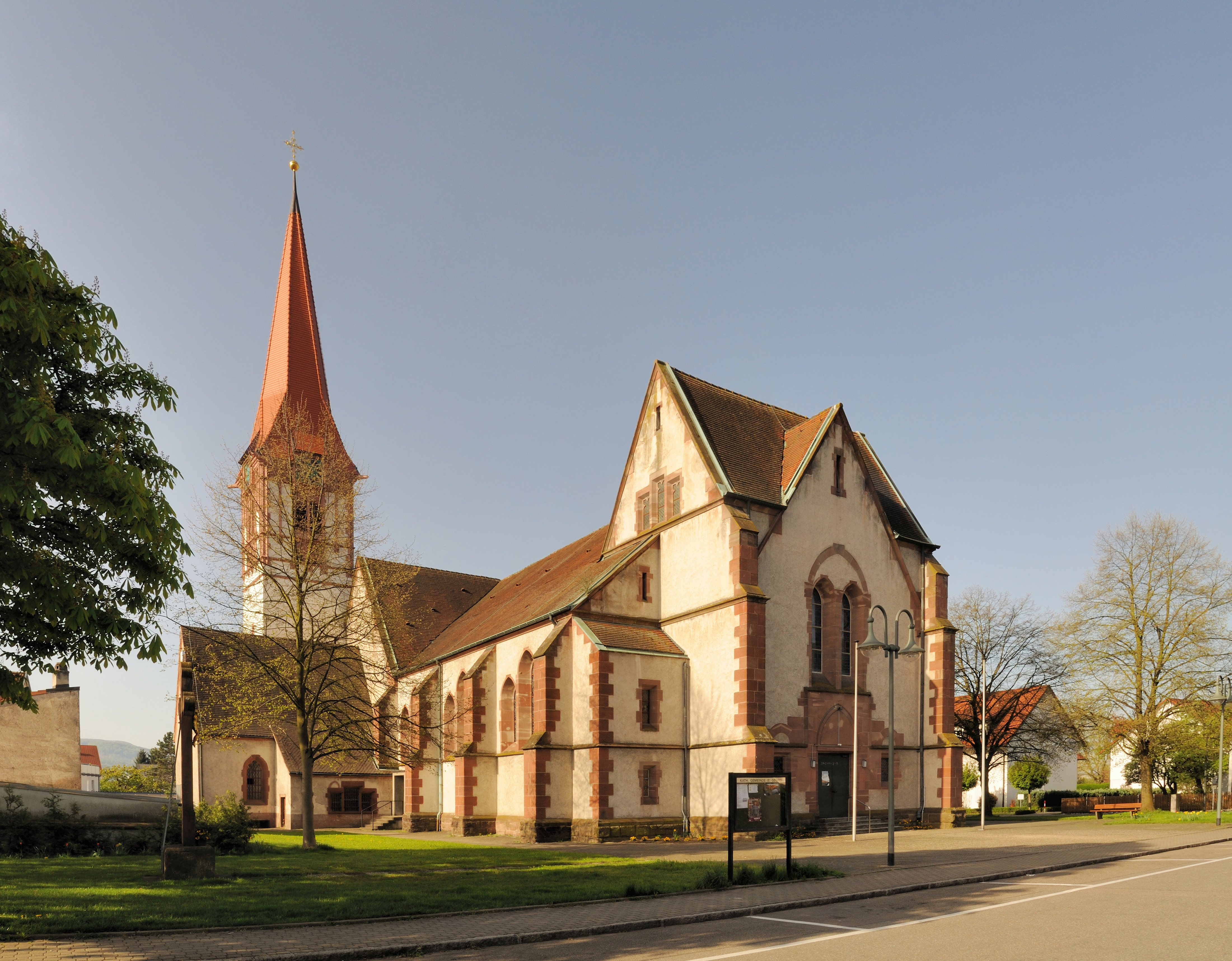 Grenzach-Wyhlen: Saint George church